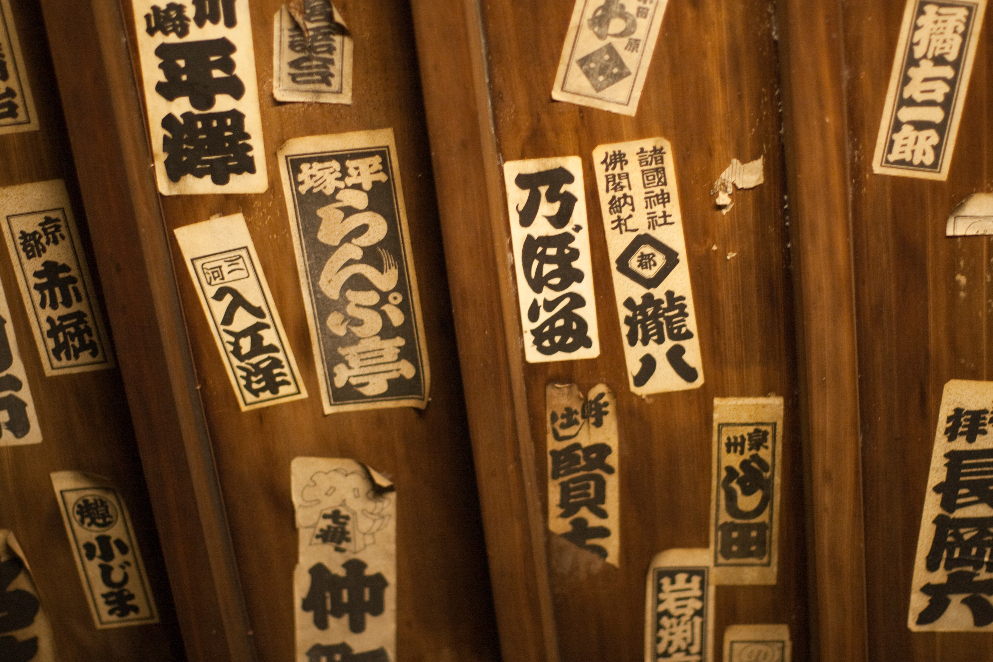 Stickers on the underside of the roof over a small shrine just inside the main gate at Yasaka-jinja. Kyoto, Japan, January 2010